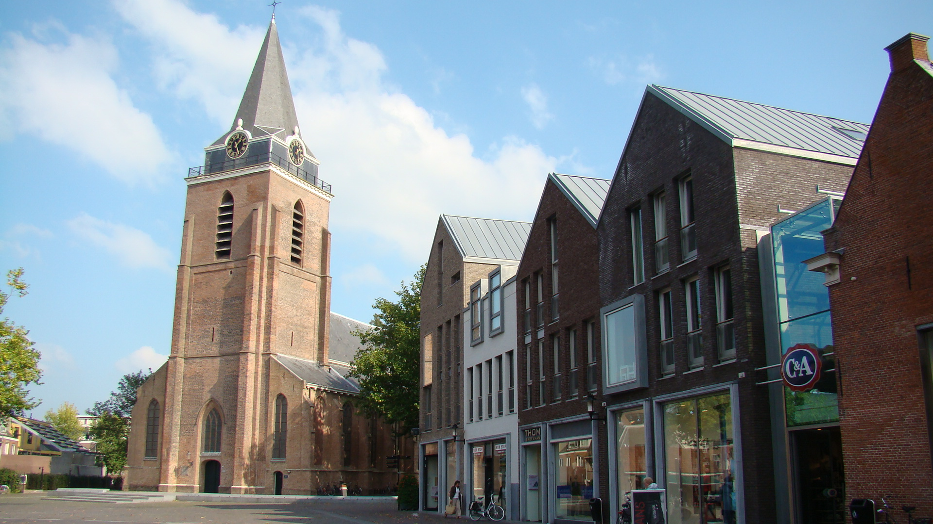 citycentre woerden